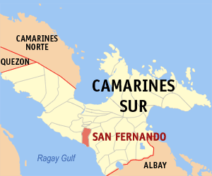 Map of Camarines Sur showing the location of San Fernando